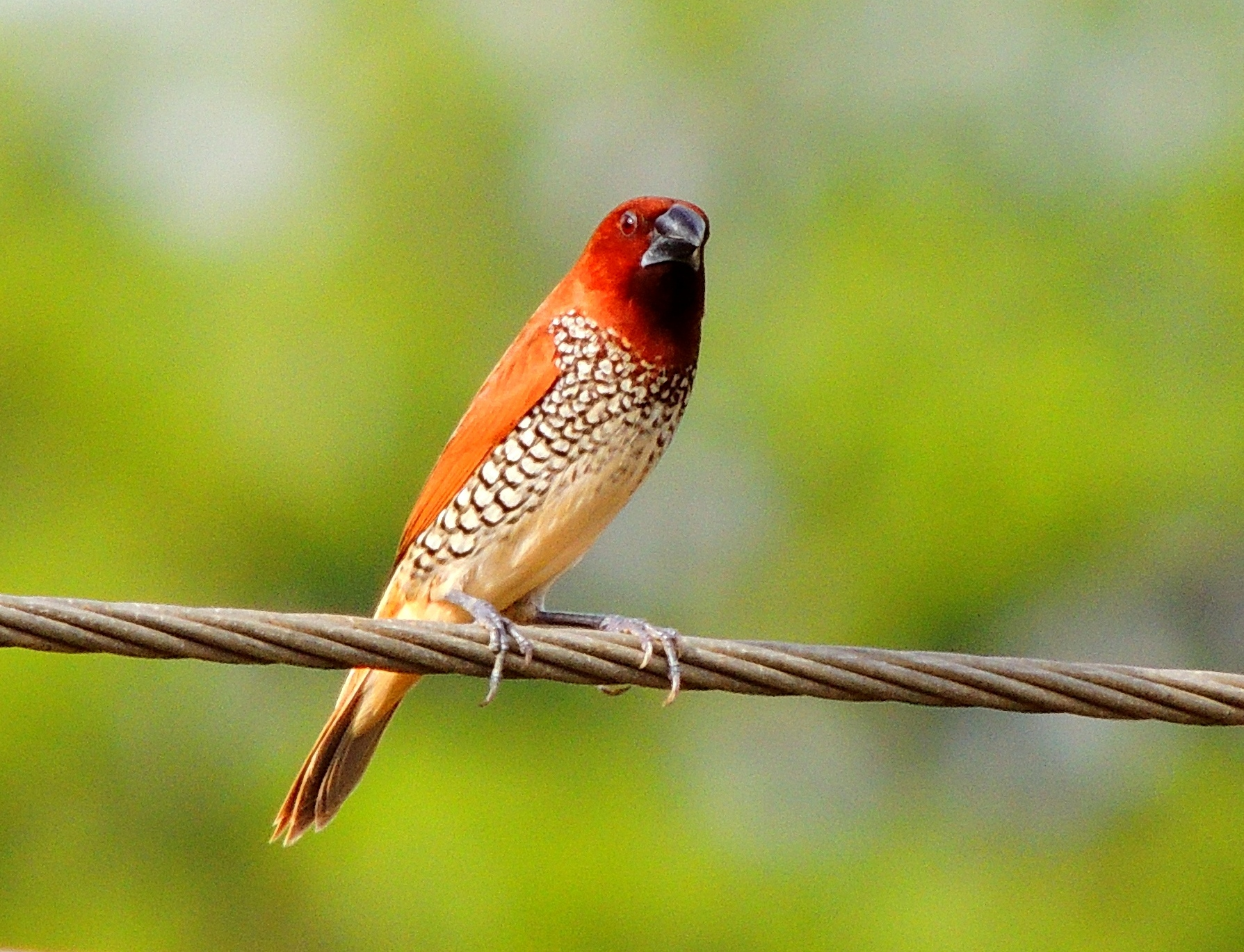 Scaly Breasted Munia captured at Budalur, Thanjavur (Dt).